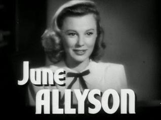 Cropped screenshot of June Allyson from the trailer for the film The Secret Heart